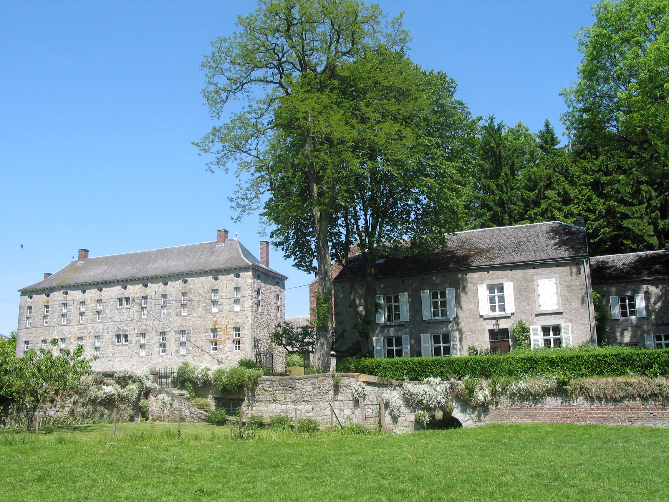 Ocquier (Belgium), the « Au Cent Fenêtres » farm (“With One hundred Windows”).